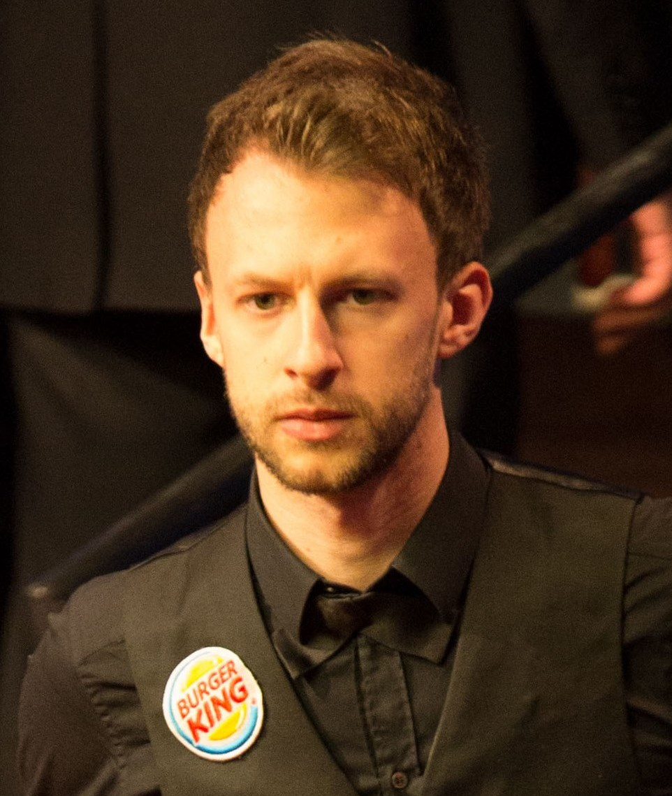 World Championship at Crucible Theatre 2015